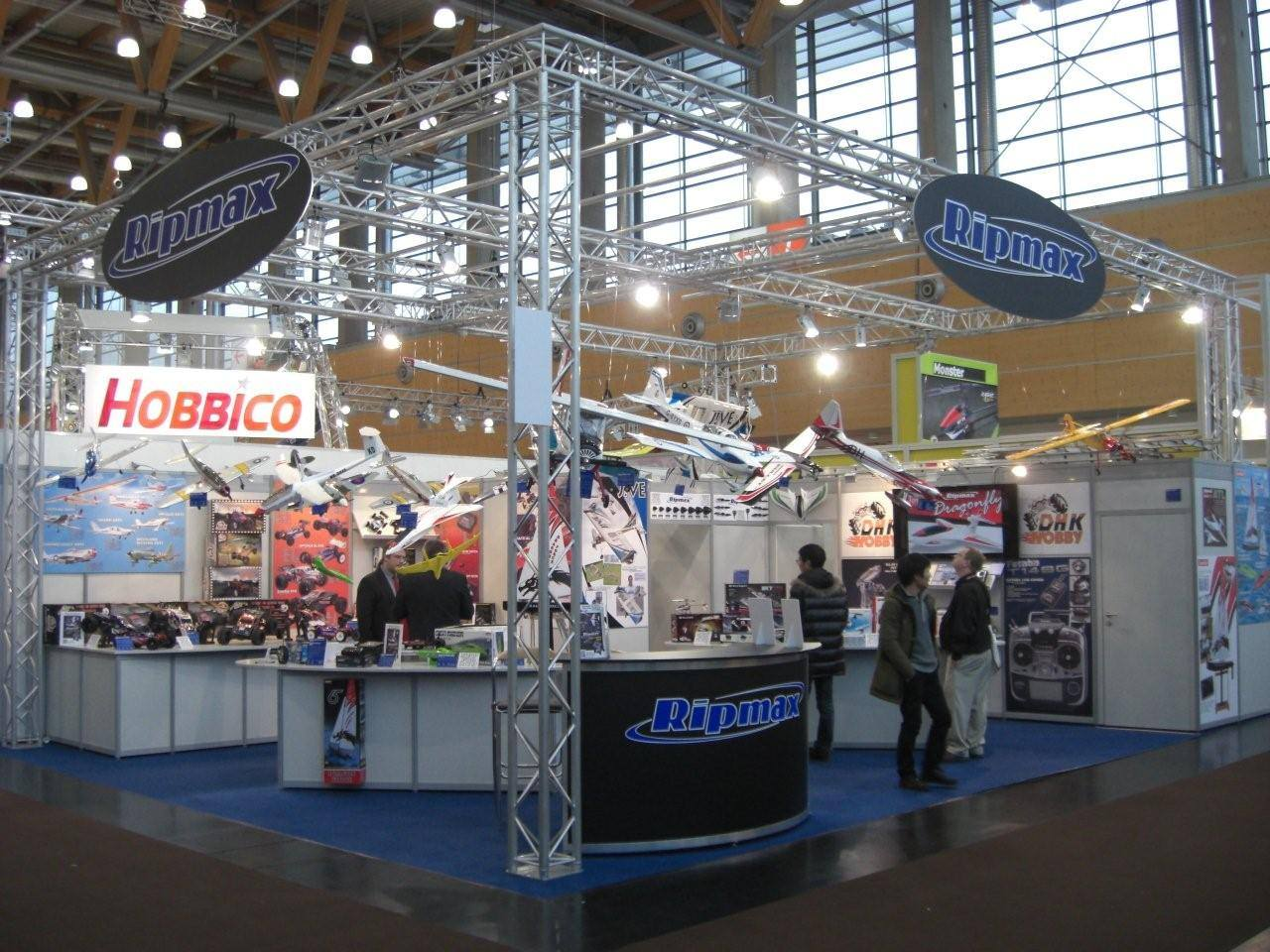 This is the Ripmax Ltd stand at the Nuremberg International Toy Fair (spielwarenmesse) in Germany.